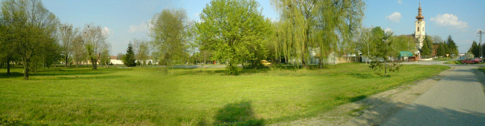 Izbište Street Panorama